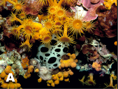 Photo of Peltodoris atromaculata Bergh, 1905 (Discodoris atromaculata) (Anthobranchia) from the Mediterranean, attached to the roof of a cave between Parazoanthus.